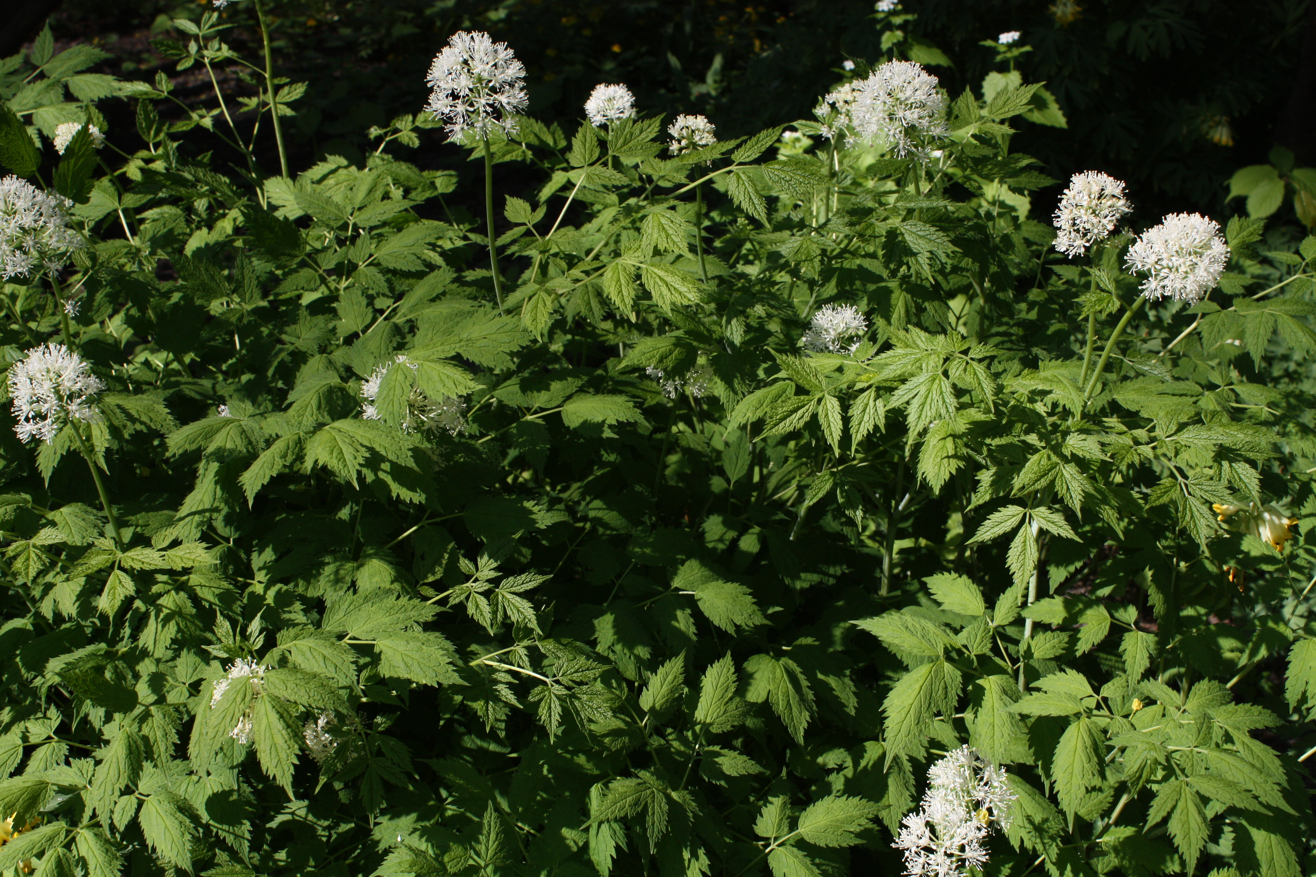 Red Baneberry (Actaea rubra) in Botanical Garden in Kaisaniemi in Helsinki